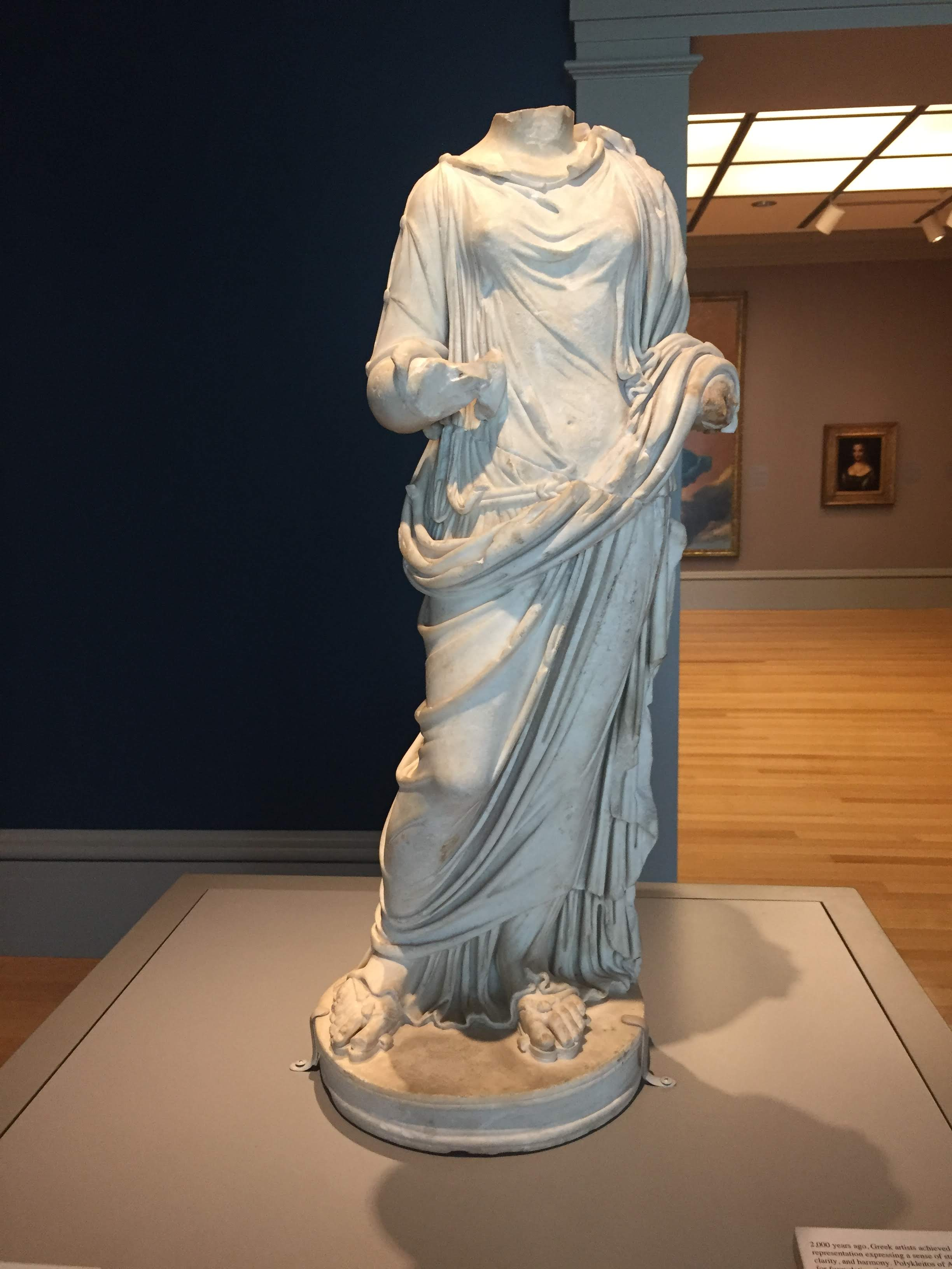 A statuette of Salus (c. 69-192 A.D.; Roman Imperial Period) by an anonymous sculptor; marble. Located in the Columbia Museum of Art (Columbia, South Carolina).